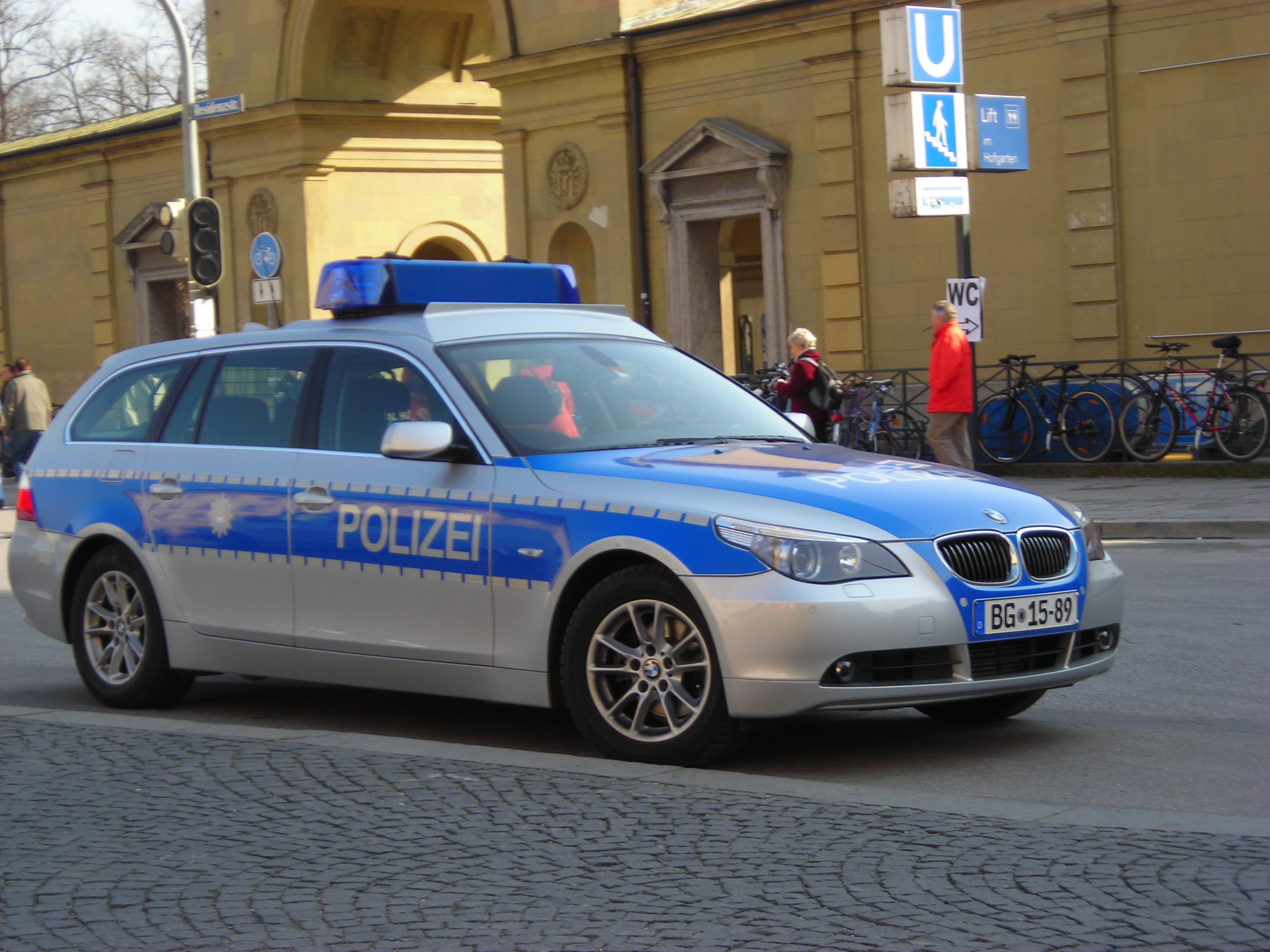 Patrol car of the Federal Police of Germany (BMW 5 Series, type E 61).